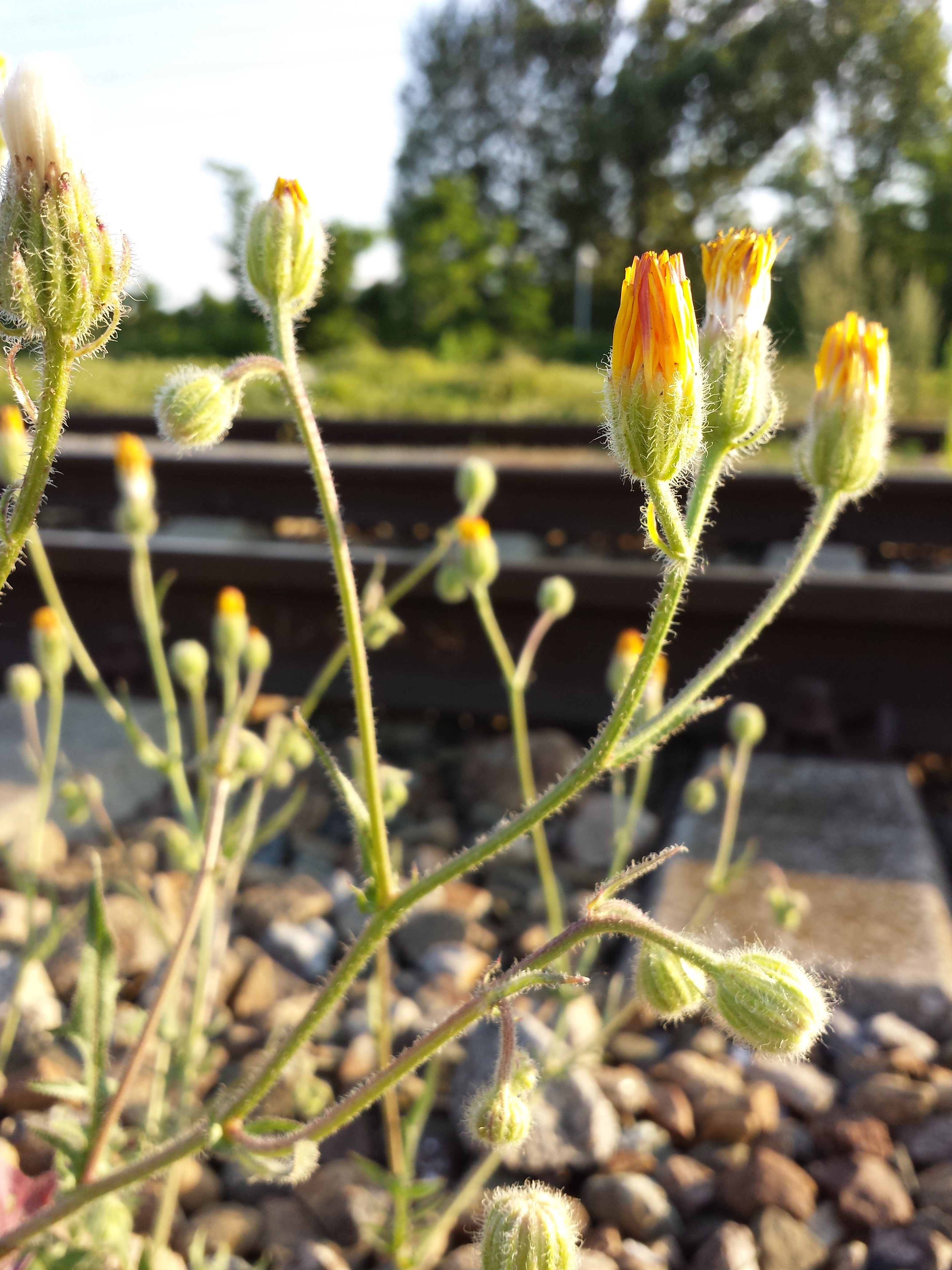 Flowers Taxon: Crepis foetida subsp. rhoeadifolia (sensu Fischer et al. EfÖLS 2008) Location: northwestern railway near Jedlersdorf, Vienna-Floridsdorf - ca. 170 m a.s.l. Habitat: ballast